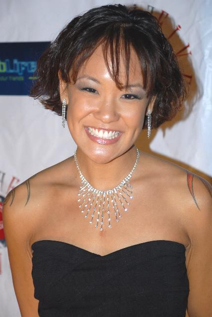 Pornographic actress Jandi Lin at James Bartholet Birthday Party.